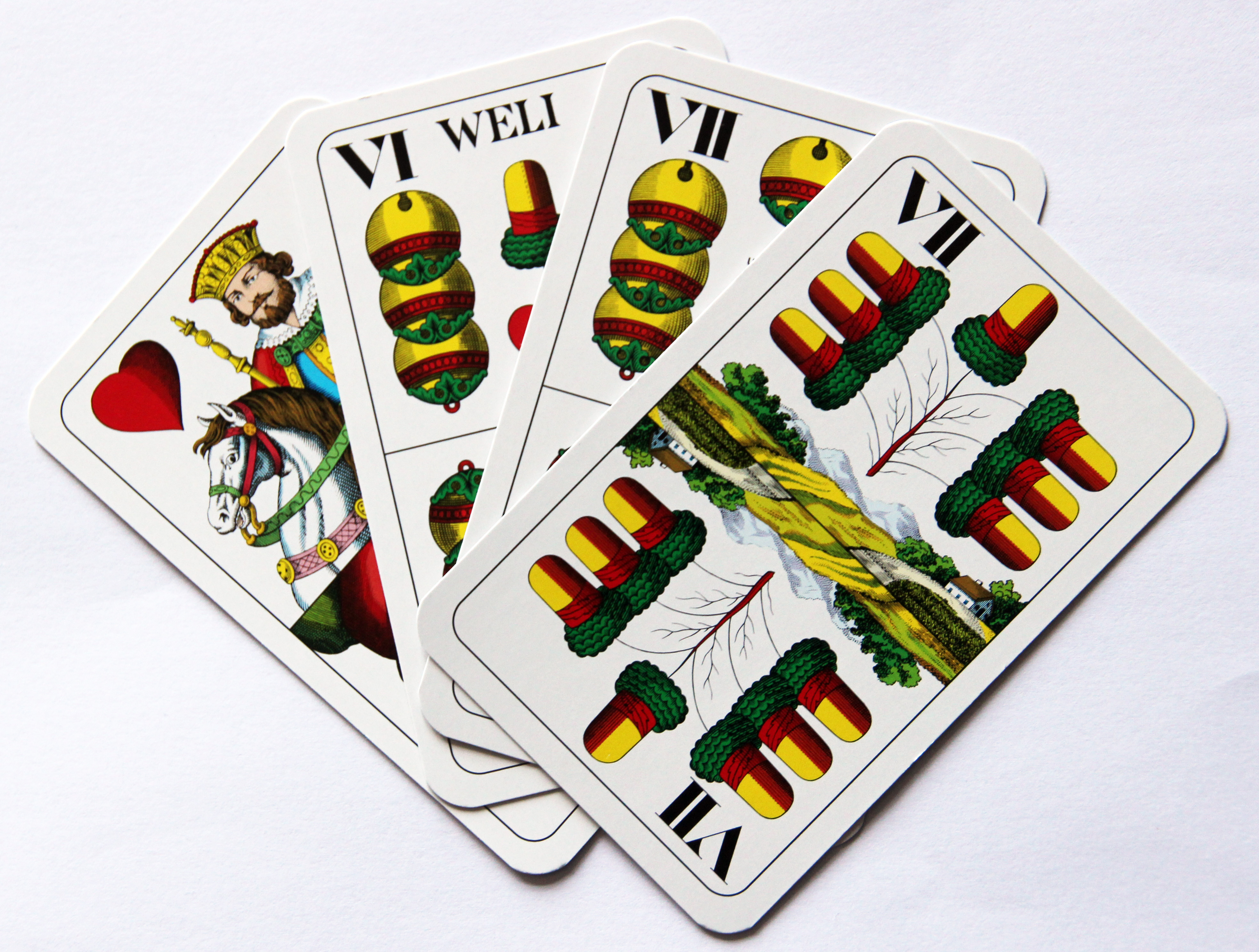 The permanent trumps or Perlaggen in a William Tell pattern pack The original artist of the card design is József Schneider, 19th century (source: Daily News Hungary: From Germany to Hungary, the story of tell cards, by Gergely Lajtai-Szabó, 15 October 2017).